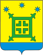 Novorozdestvenskoe (Krasnodar krai), coat of arms